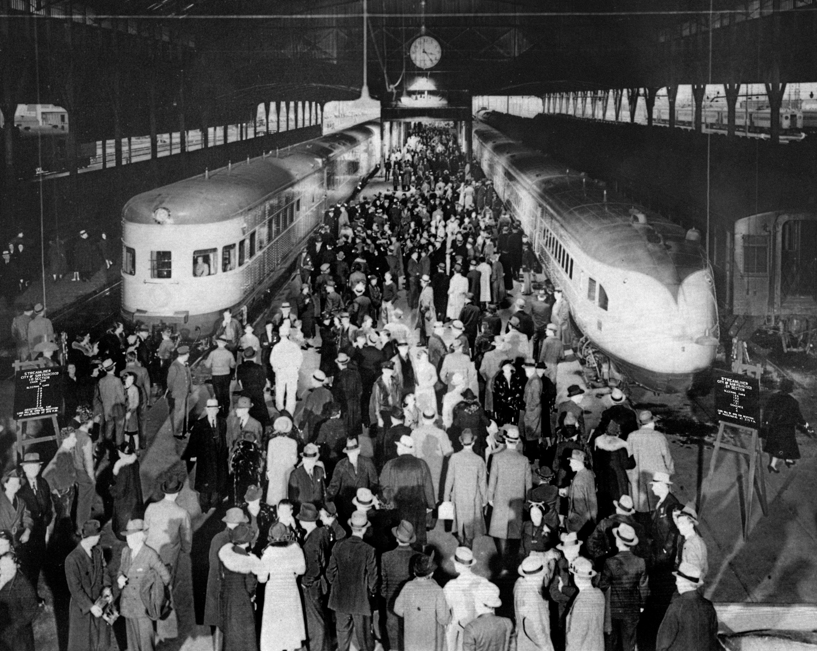 City of San Francisco joint run of original and new train sets January 2, 1938. Original caption: ""CITY OF SAN FRANCISCO" streamliner left Oakland Pier terminal in two sections on January 2, 1938, when the new ultra-modern 17-car train was inaugurated to supplant the original 11-car train which had been in operation since June 14, 1936, for the SP-UP-C&NW between San Francisco and Chicago. Both trains carried capacity loads of holiday travelers. The original streamliner was assigned to other service after this trip."